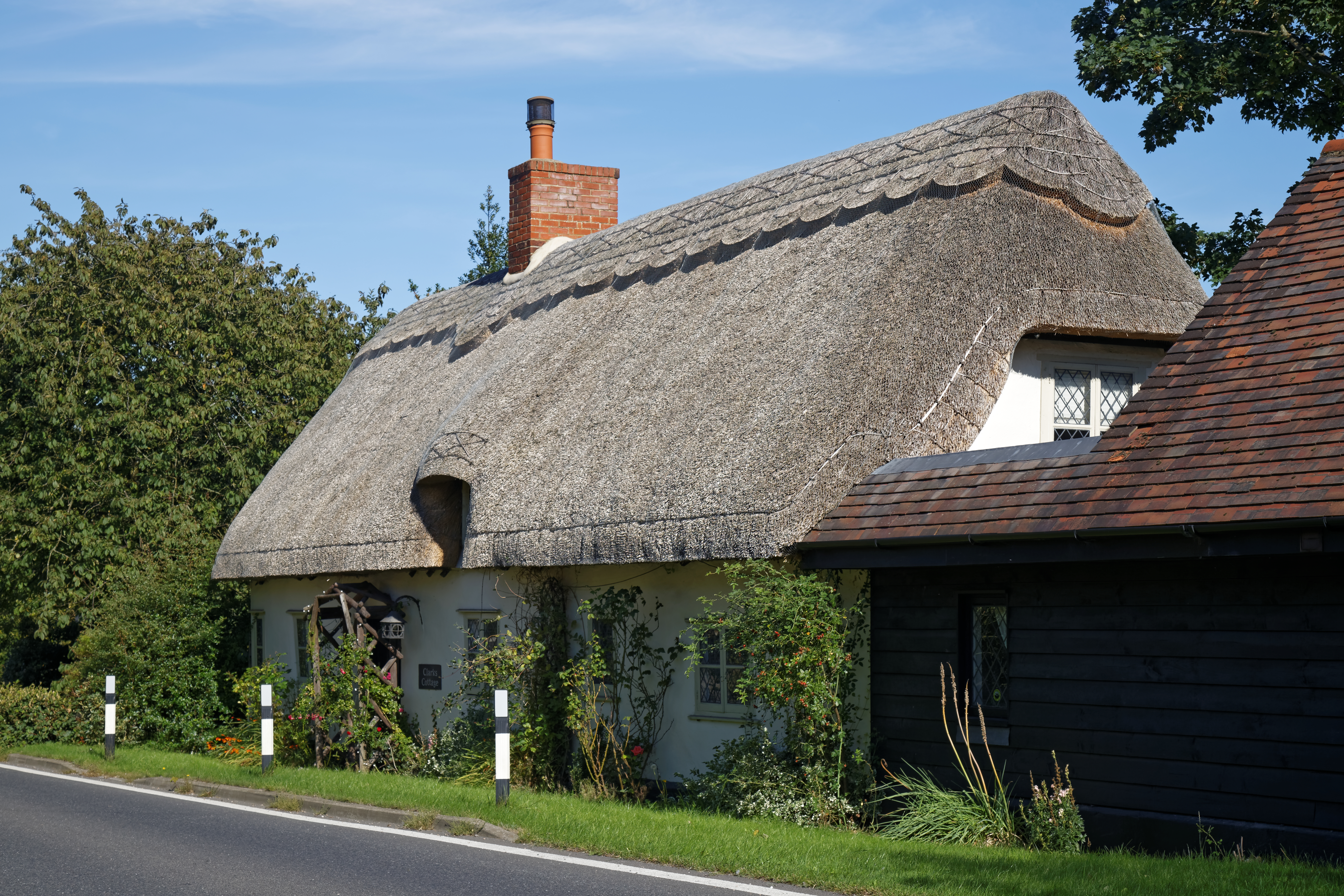 A thatched cottage on the B1038 road in the village of Wicken Bonhunt, Essex, England.Software: RAW file lens-corrected, optimized and converted to JPEG with DxO OpticsPro 10 Elite, and likely further optimized and/or cropped and/or spun with Adobe Photoshop CS2.